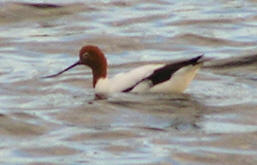 Red-necked Avocet Photographed 4-Jun-2006, Homebush Bay NSW Australia